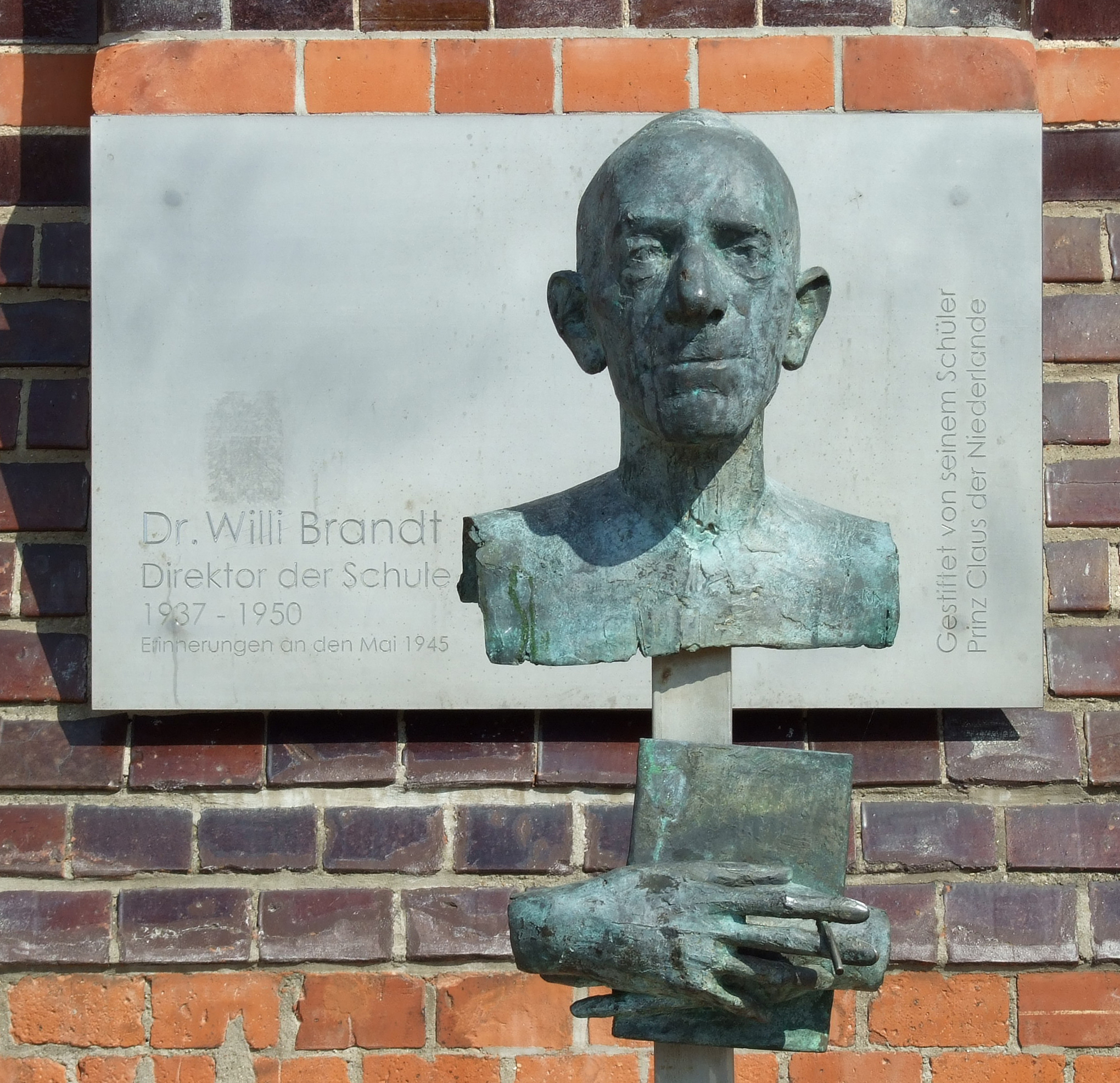 Friderico-Francisceum-Gymnasium Bad Doberan